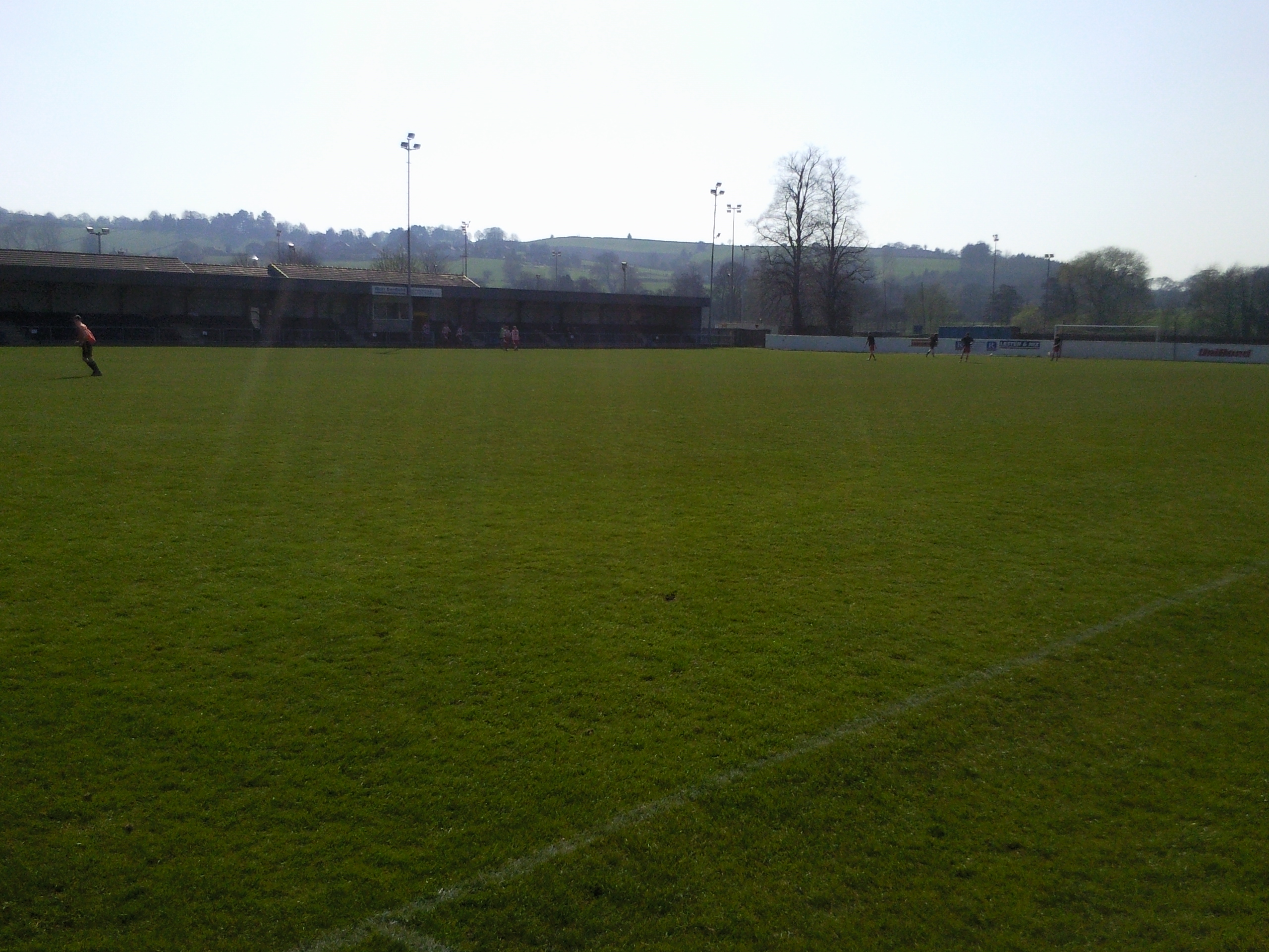 Home stadium of Belper Town F.C.